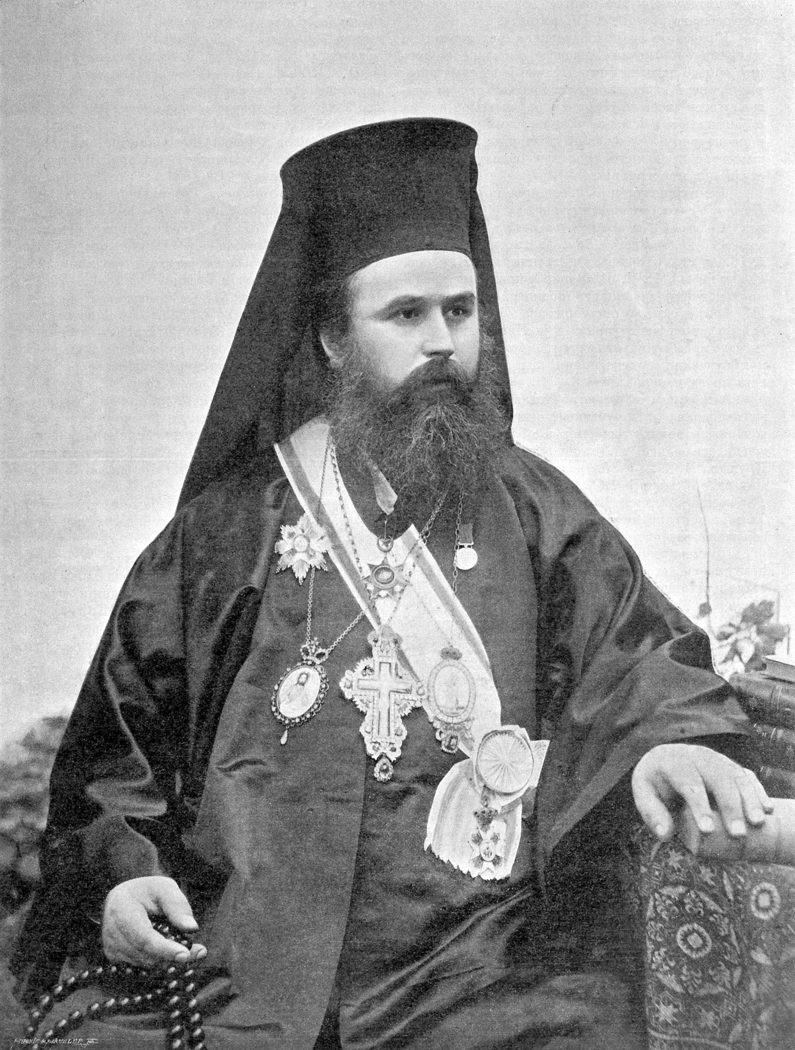 Photograph of Metropolitan Dionisije, published in Nova iskra (1899).